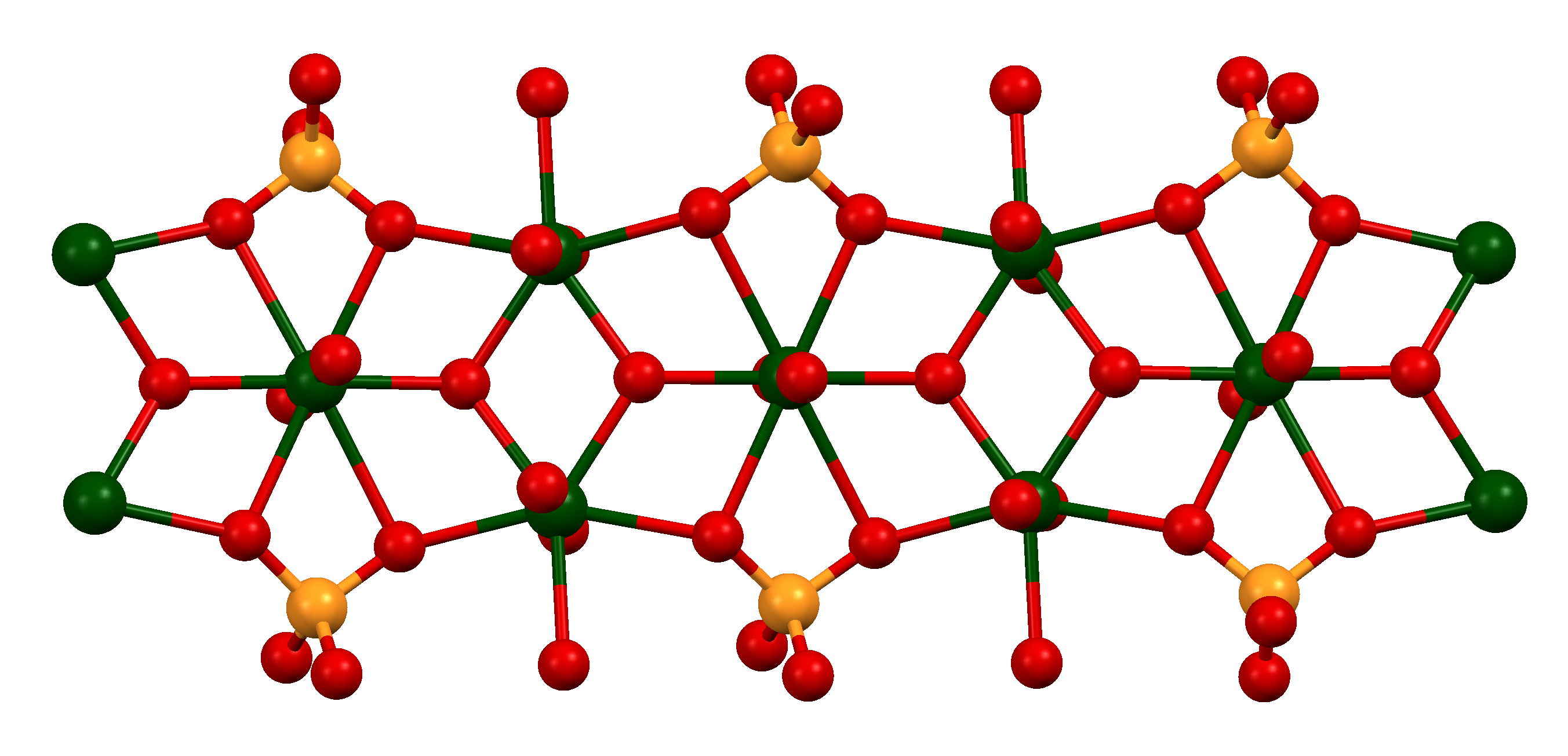 Chains of edge-shared hexagonal-bipyramidal and pentagonal-bipyramidal uranyl polyhedra in the mineral bergenite